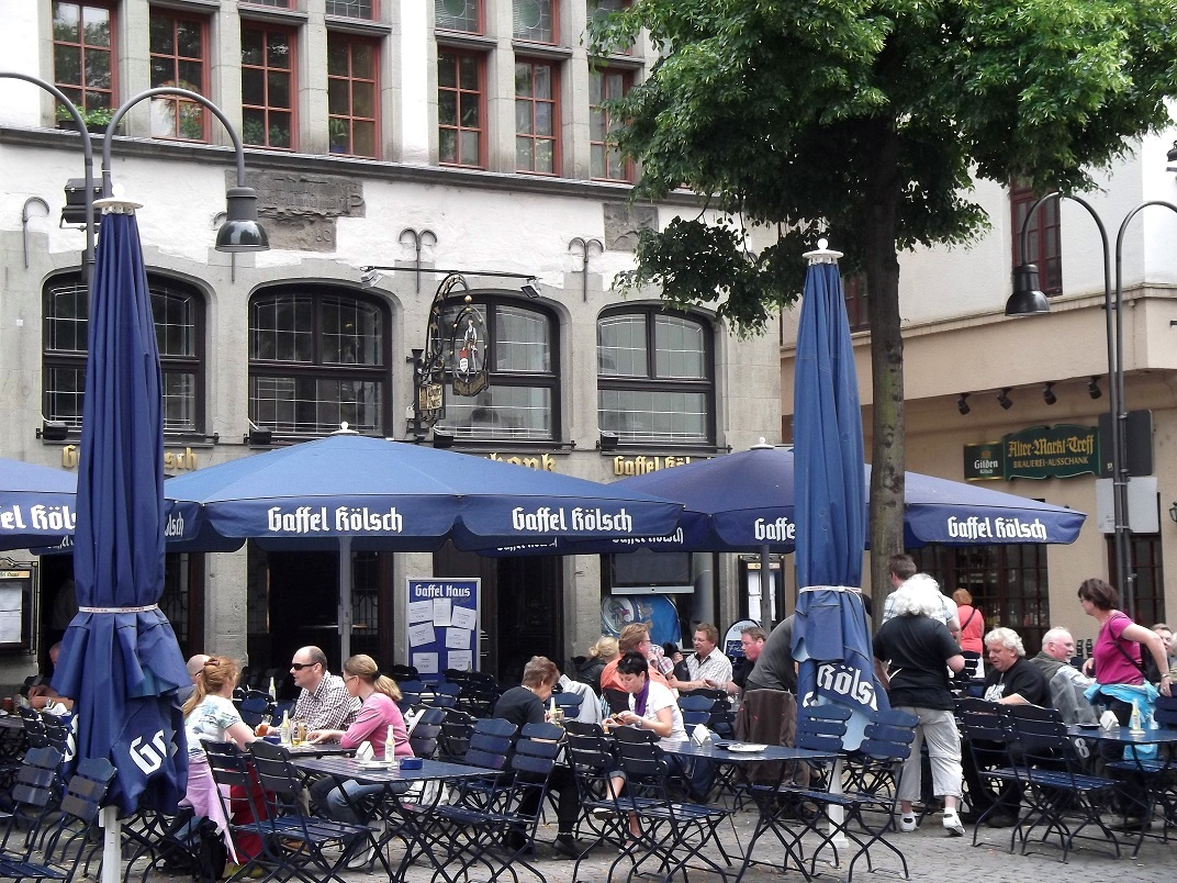 Cologne (Köln), Germany: Altstadt: Alter Markt: Gaffel-Haus